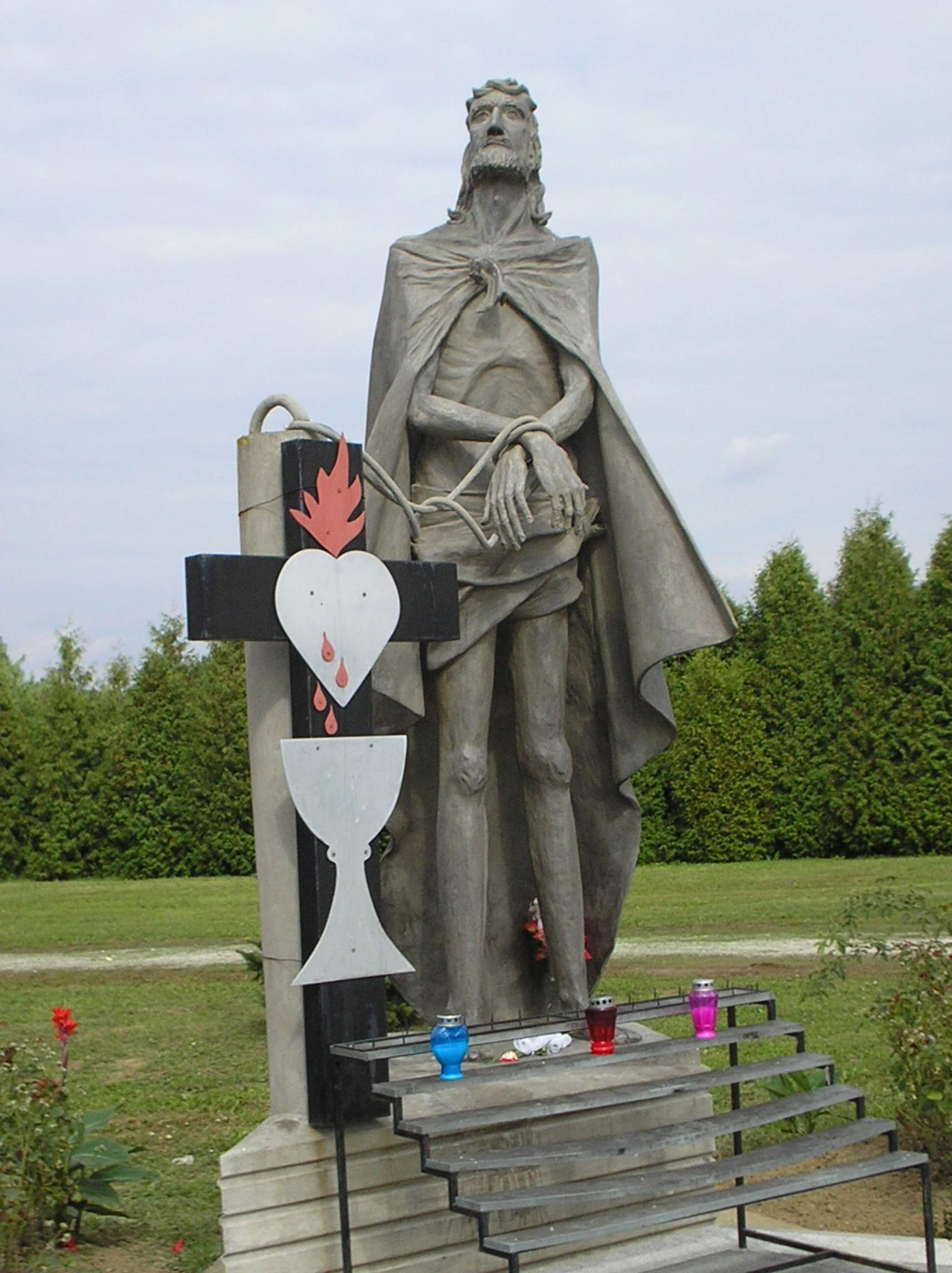 The statue of Jesus, Ludbreg, Croatia